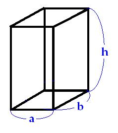 This is a rectangular parallelepiped.I think It will may be used for eazy mathmatical explanation.初等数学の説明に用いる事を想定した、直方体の図です。